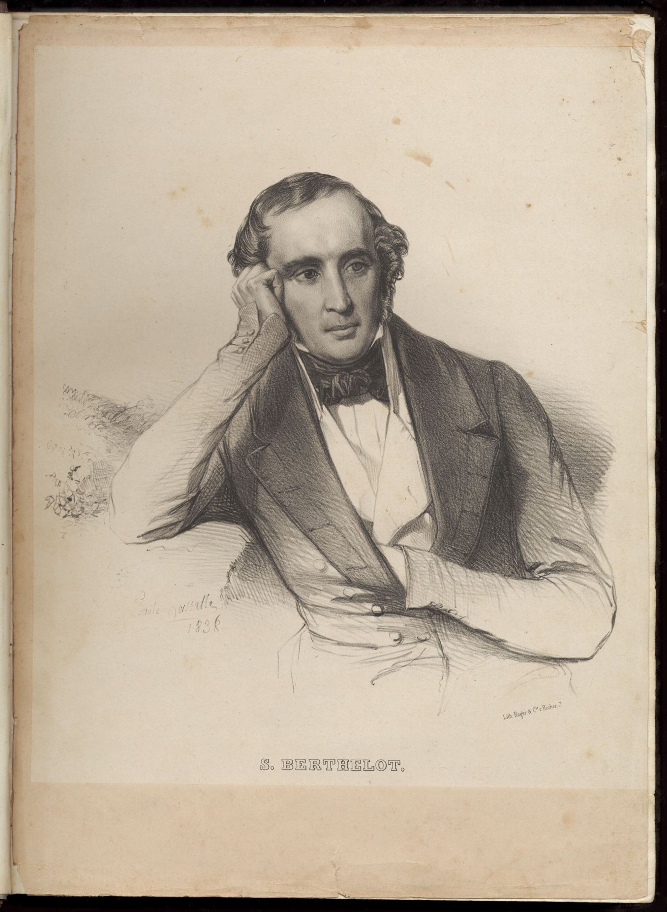 Lithography: The French Scientist Sabin Berthelot (1794-1880)